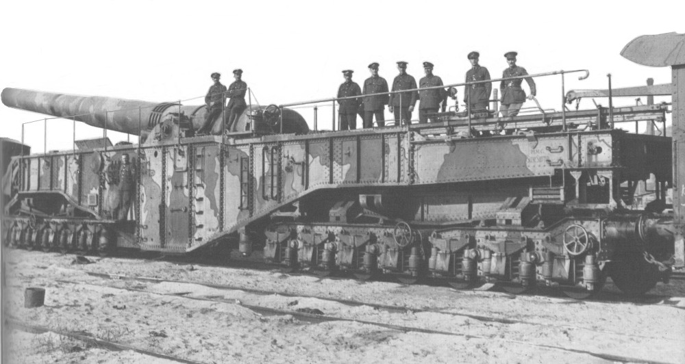 HM Gun Scene Shifter, a 14 inch railway gun, at Camiers, 8 km NW of Étaples, France, 1918. Note breech opening to left side, unusual for British army guns. This was originally intended to be the left-side gun in a twin turret for the Japanese battleship Yamashiro. The dazzle camouflage pattern is clearly seen. Colours were probably brown, green and cream.